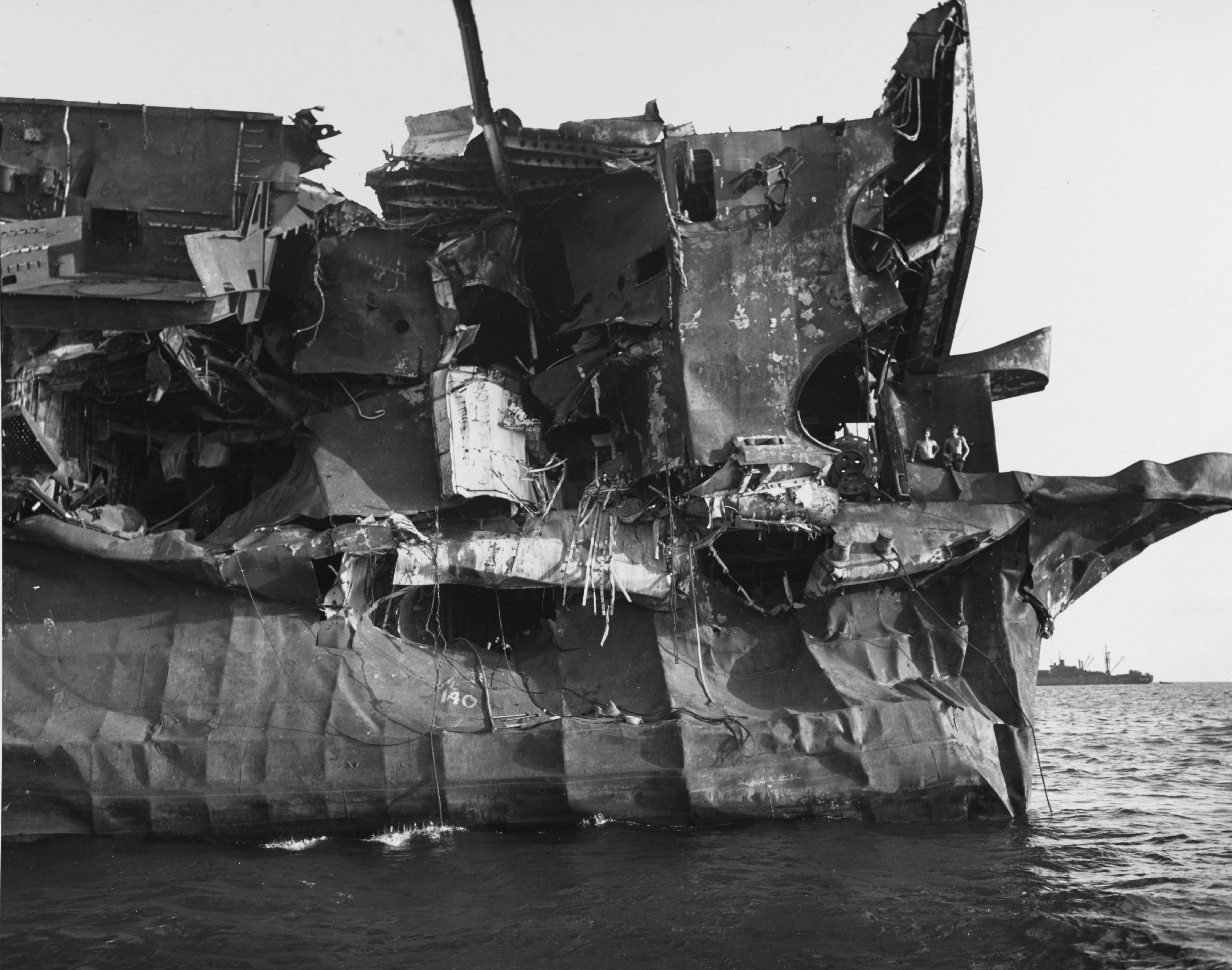 View of the port quarter of the U.S. Navy light aircraft carrier USS Independence (CVL-22), showing severe blast damage caused by the atomic bomb air burst "Able" at Bikini Atoll on 1 July 1946. The photo was taken on 23 July 1946. Note the shirtless men standing aft.